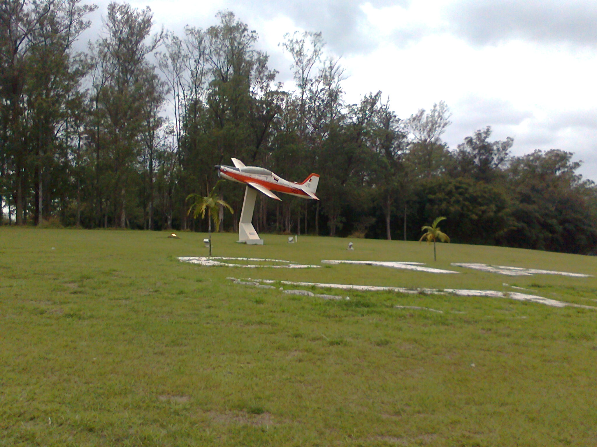 Embraer EMB-312 Tucano no DCTA - S. José dos Campos - Brasil